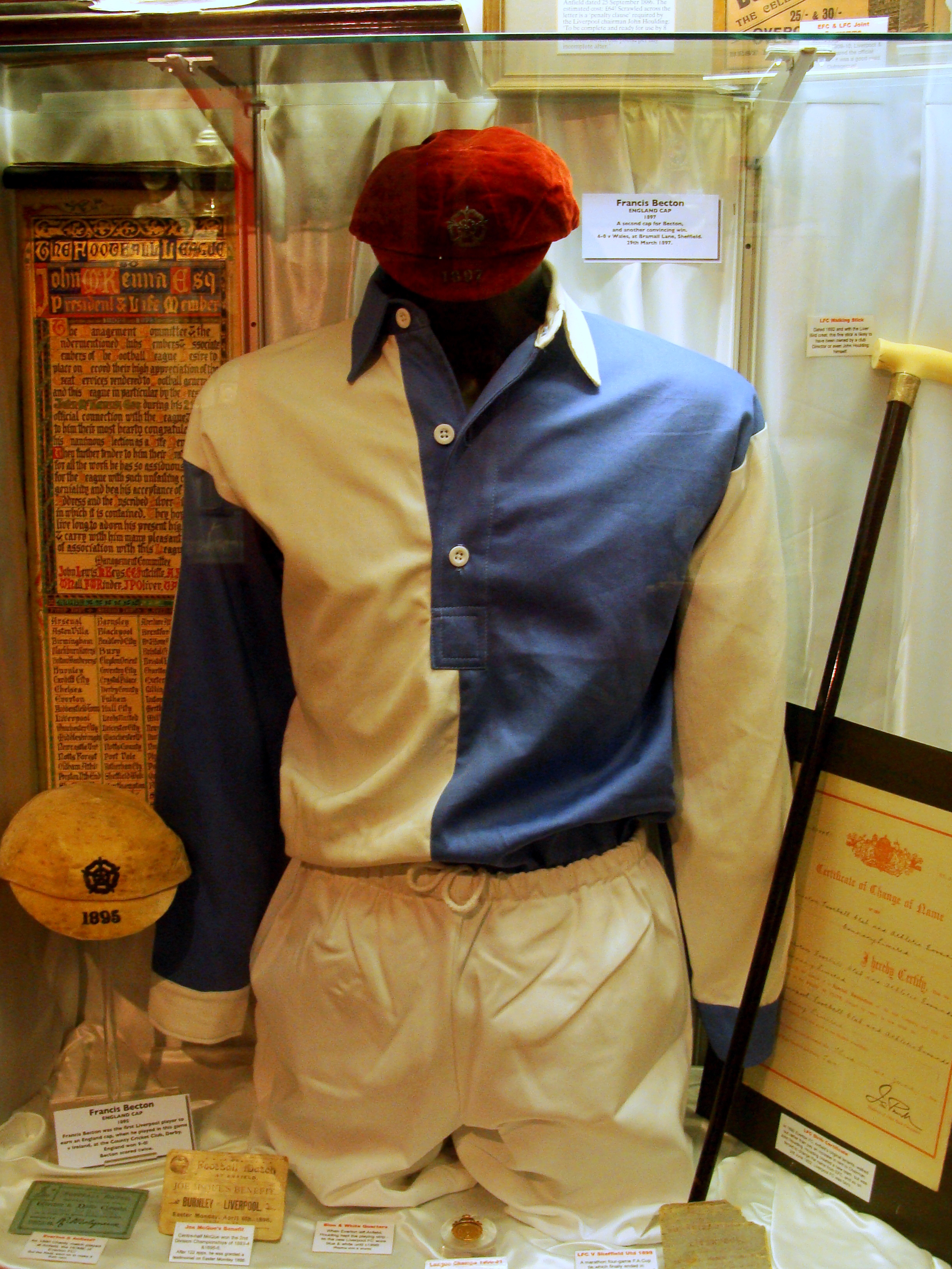 First Liverpool FC kit (not after 1896) in Liverpool FC Museum at Anfield